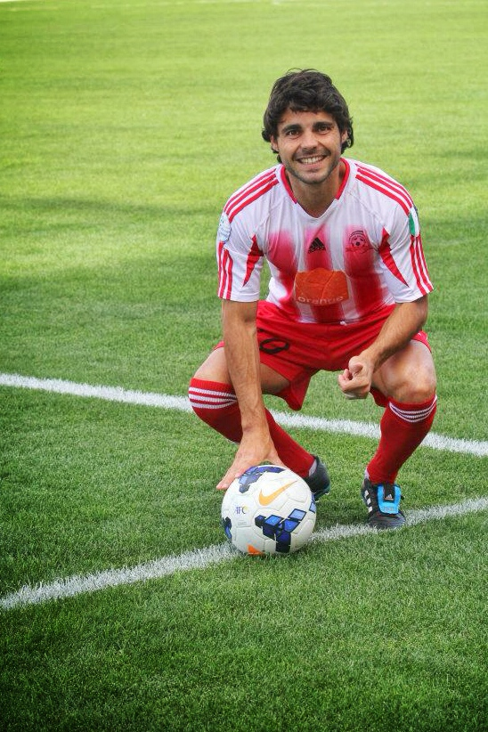 Galan en las filas del equipo de la Jordan Premier League Shabab Al-Ordon.